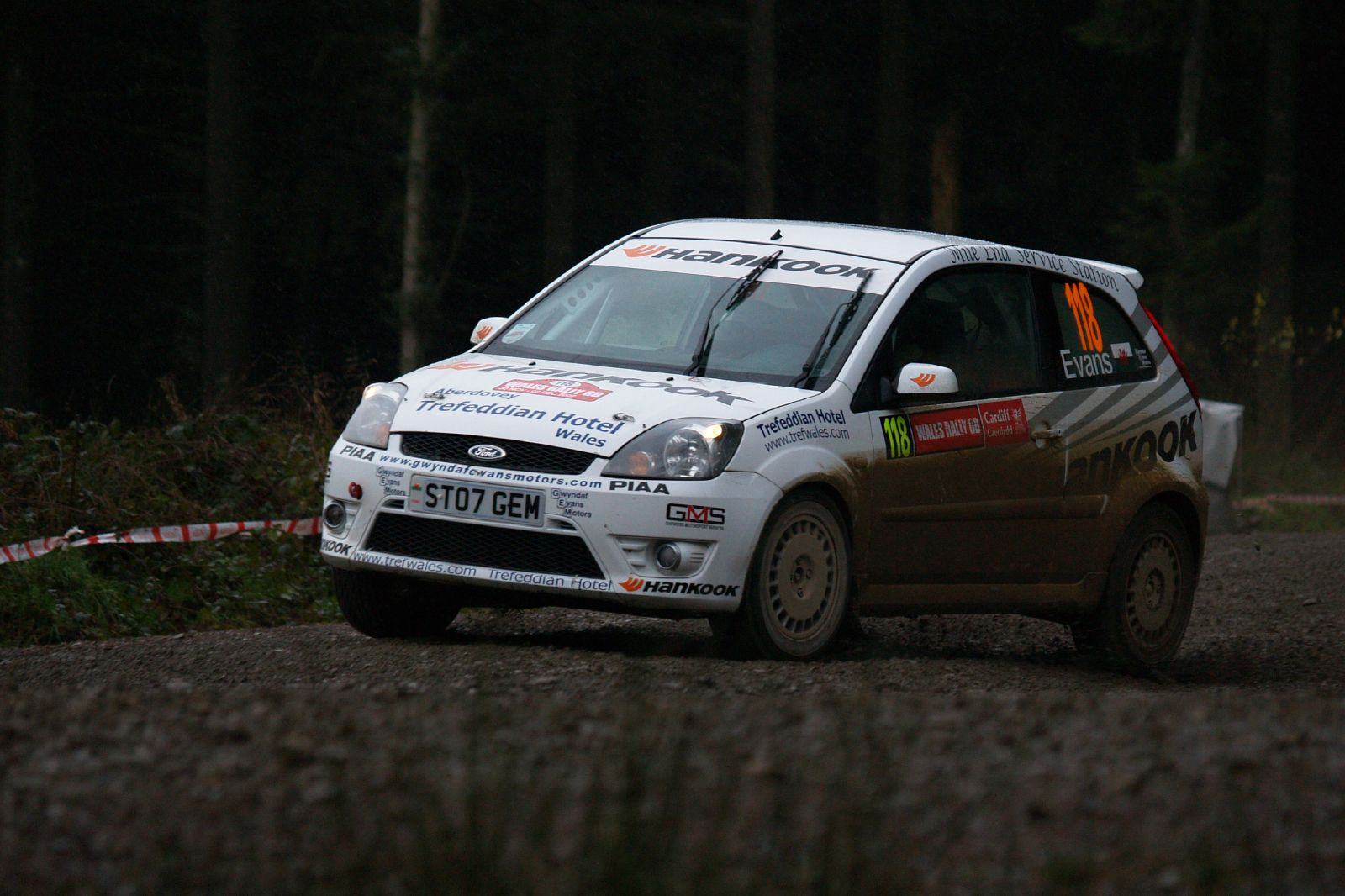 Elfyn Evans driving his Ford Fiesta ST during 2007 Wales Rally GB.